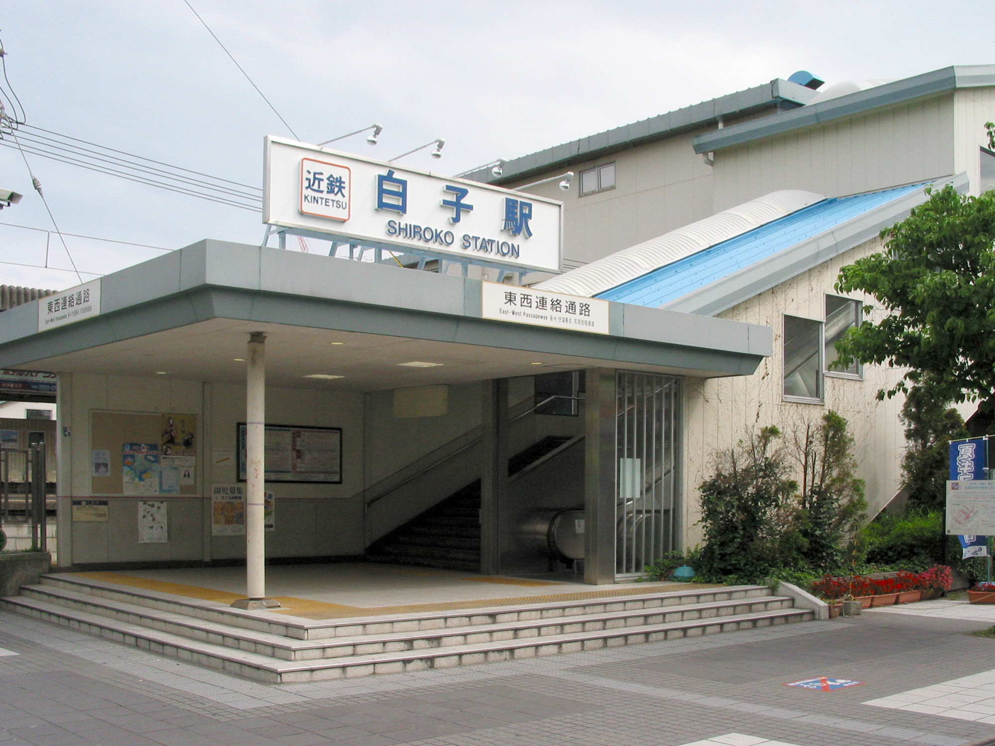 Shiroko Station Kintetsu Nagoya Line, Kintetsu Corporation. I took this image at Shiroko-Ekimae Suzuka Mie, Japan. 近鉄名古屋線白子駅 三重県鈴鹿市白子駅前にて撮影